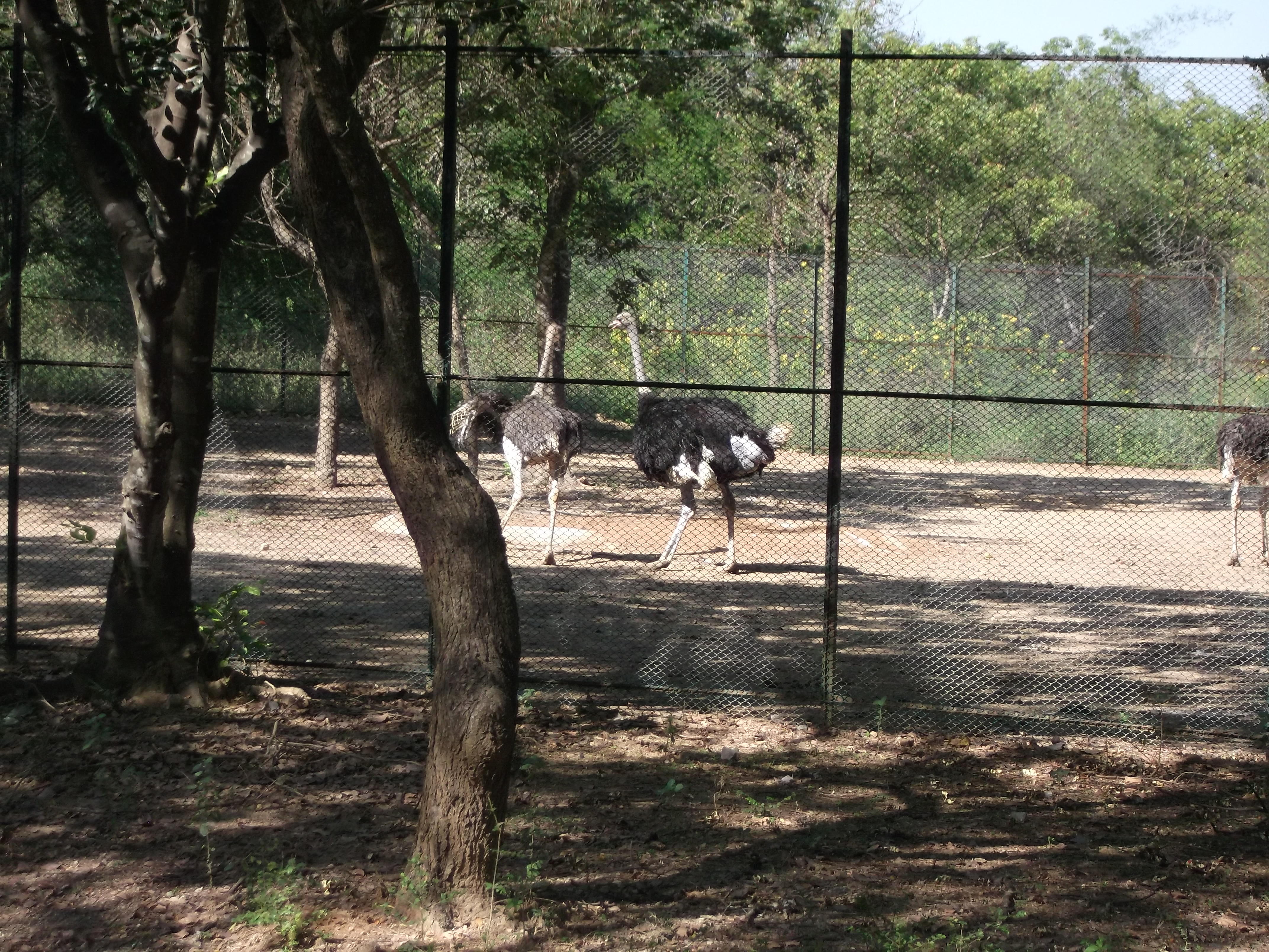 Ostrich in the Vandalur zoo